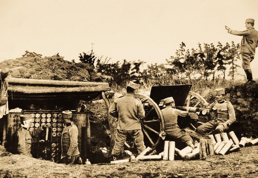 Photography taken at museum "Serbs on Corfu from 1916 -1918"